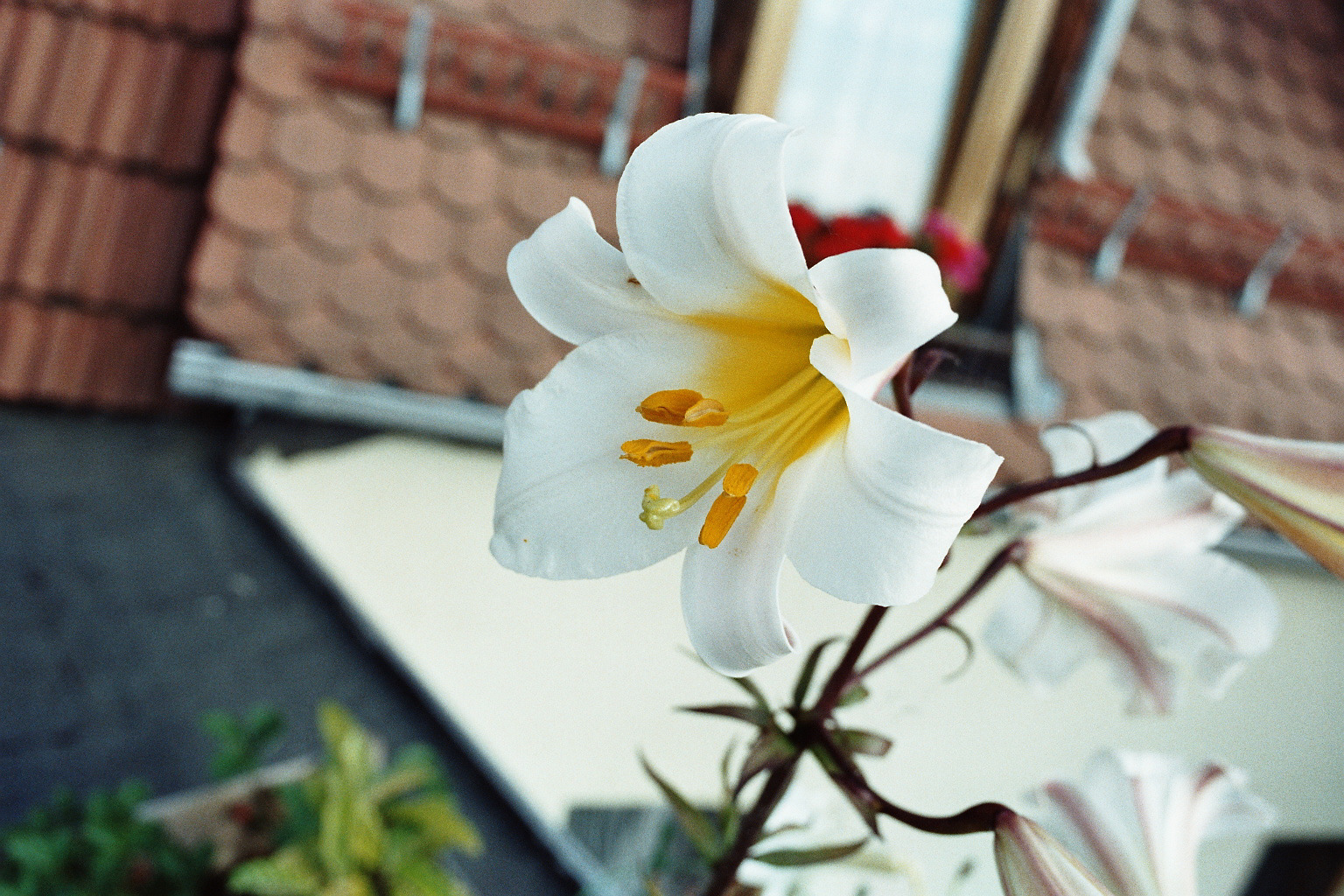 Lilium leucanthum var. centifolium - Flower